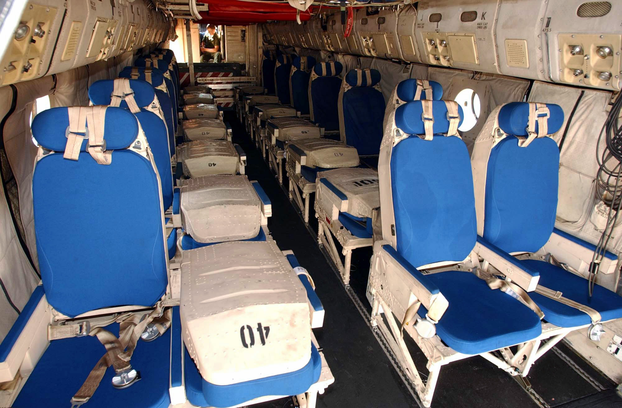 An interior view showing passenger seating arrangement looking from the tail section forward towards the cockpit of a U.S. Navy Grumman C-2A Greyhound Carrier Onboard Delivery (COD) aircraft assigned to Fleet Logistics Support Squadron 40 (VRC-40) on 22 Jul 2002 at the Naval Air Station Norfolk (Virginia, USA).